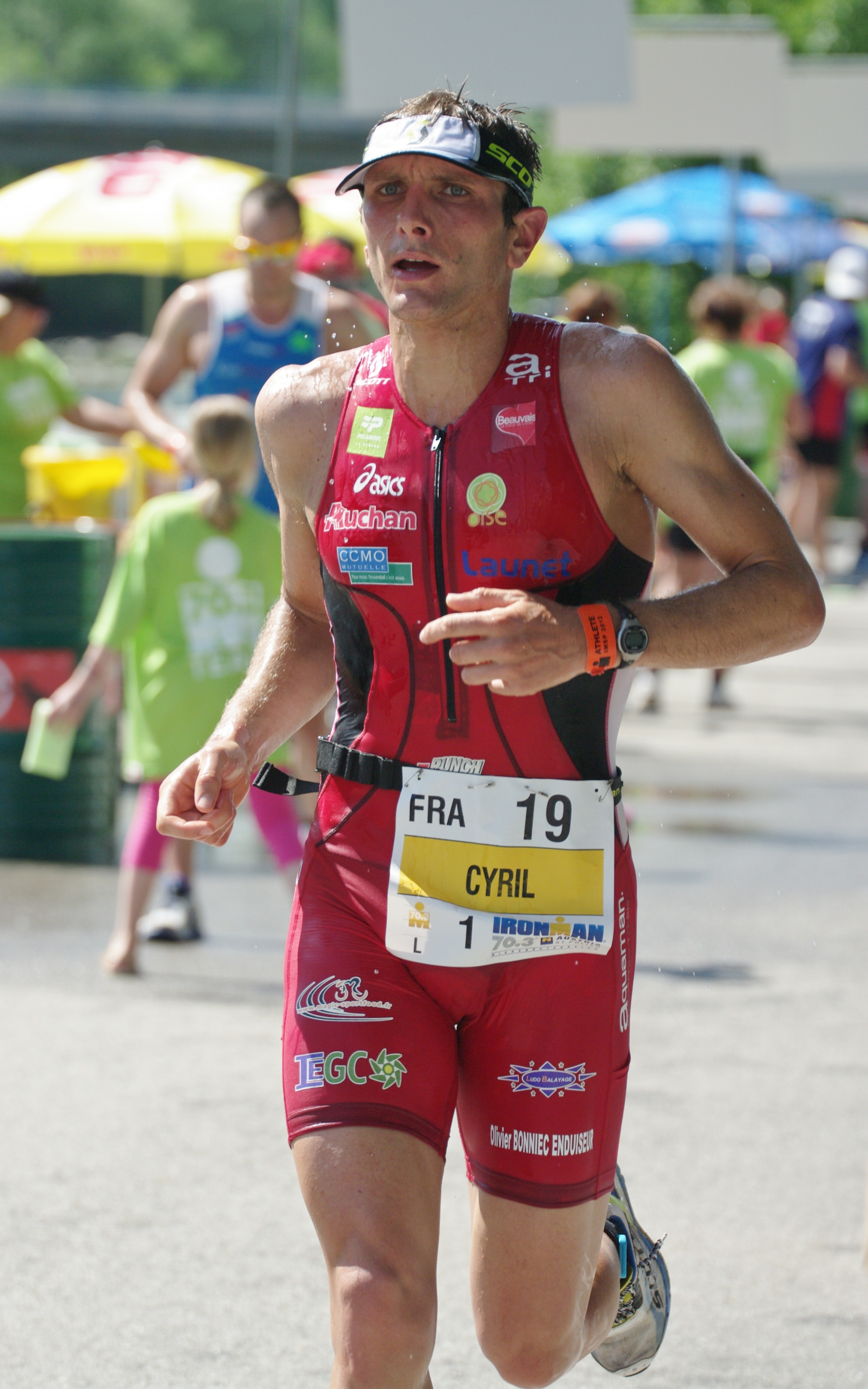 French triathlete Cyril Viennot in the Ironman 70.3 Austria on 20 May 2012 in St. Pölten.